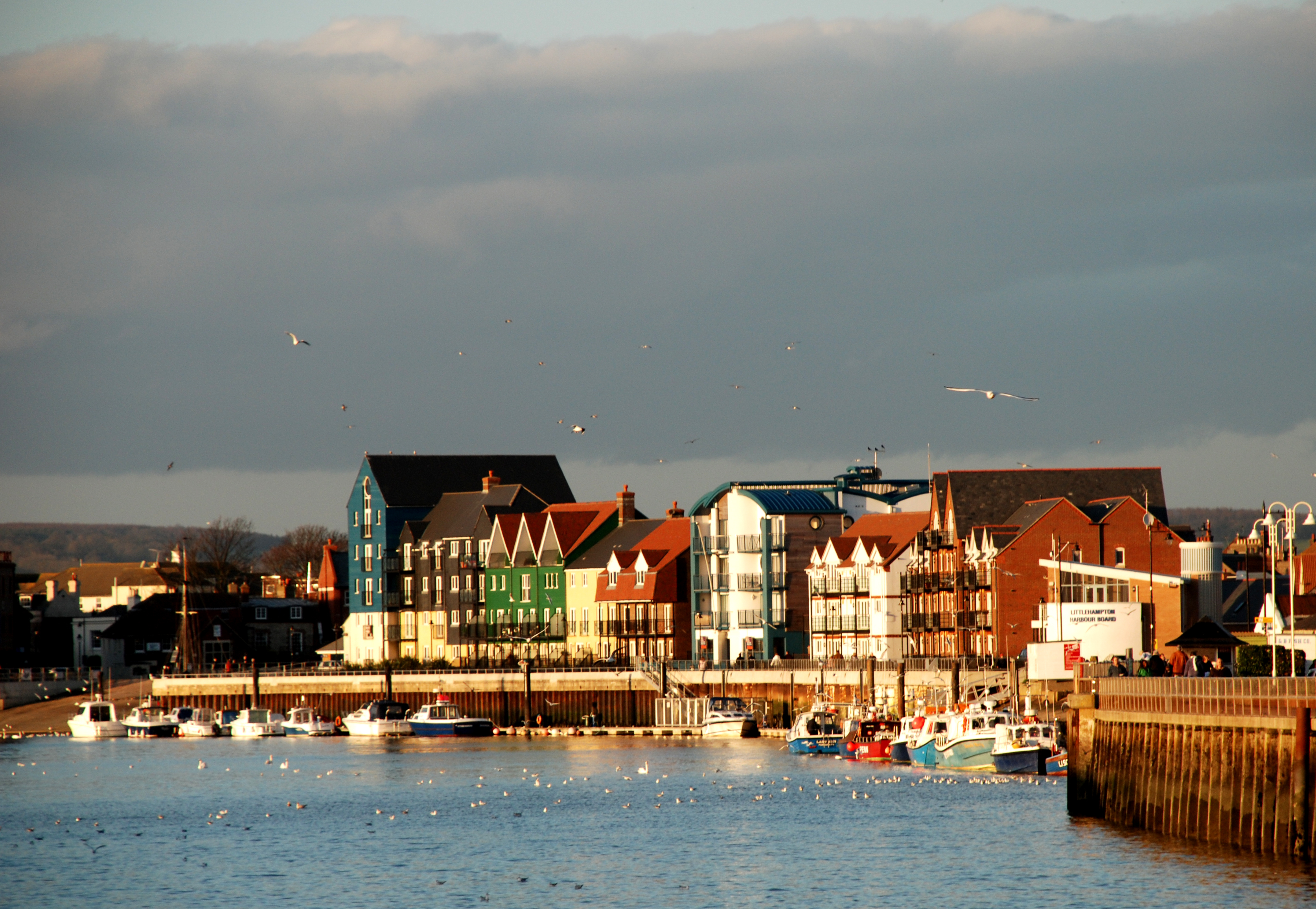 Summary:Littlehampton Harbour, West Sussex Author:PhillipC